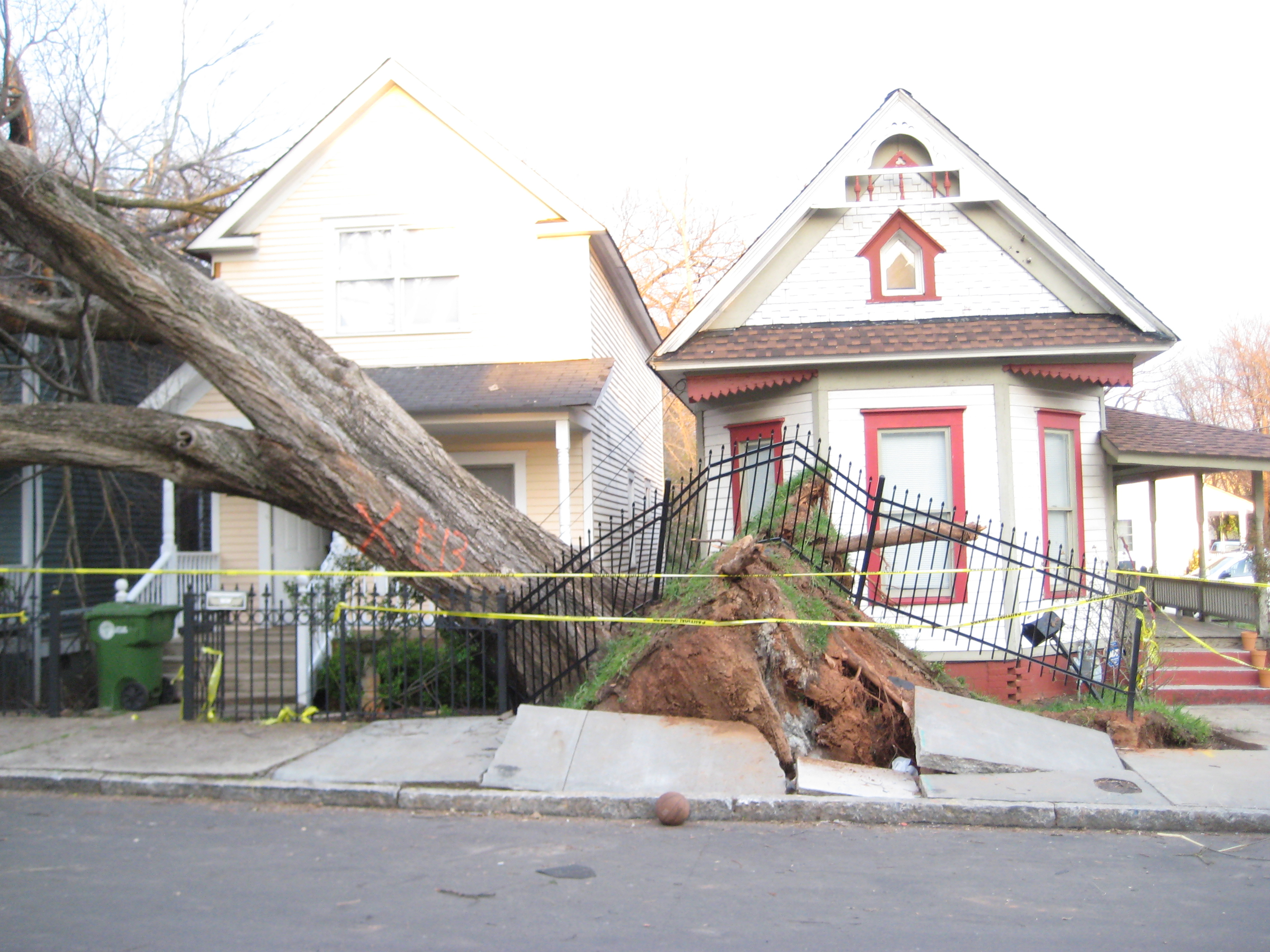 Tree uprooted by a tornado in March 2008 in the neighborhood of Cabbagetown.